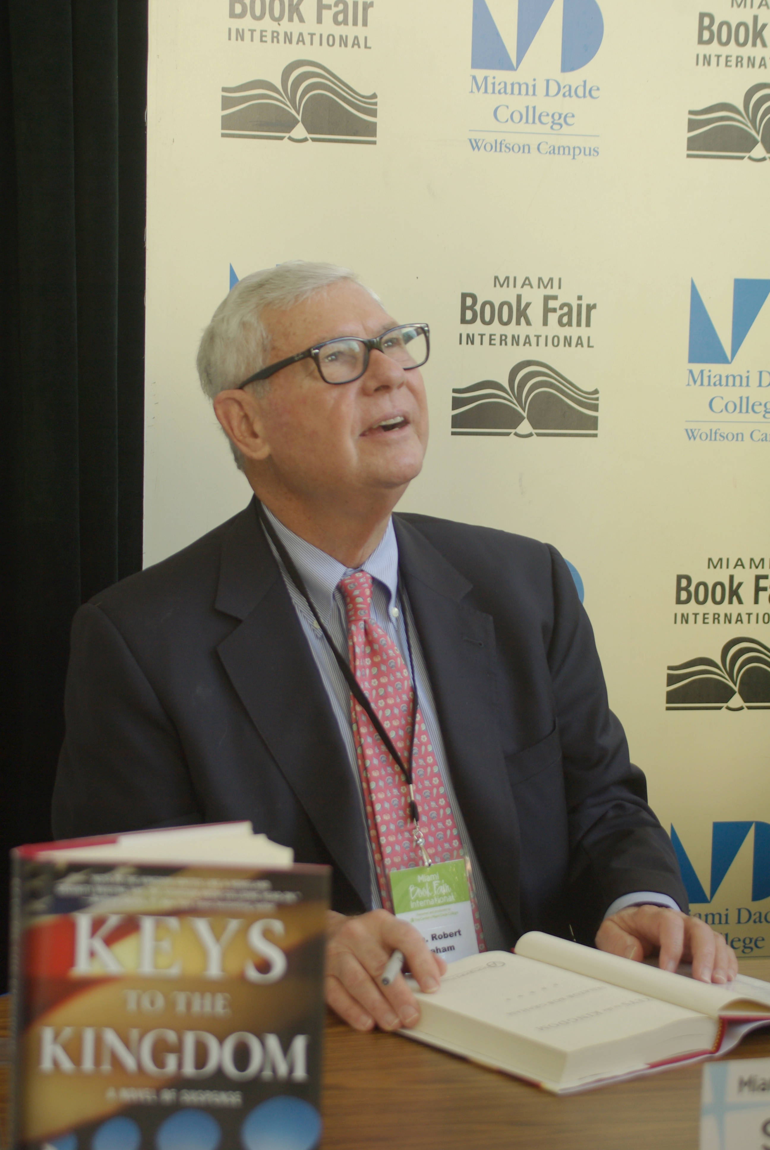 Former senator Bob Graham signing books at the Miami Book Fair International 2011